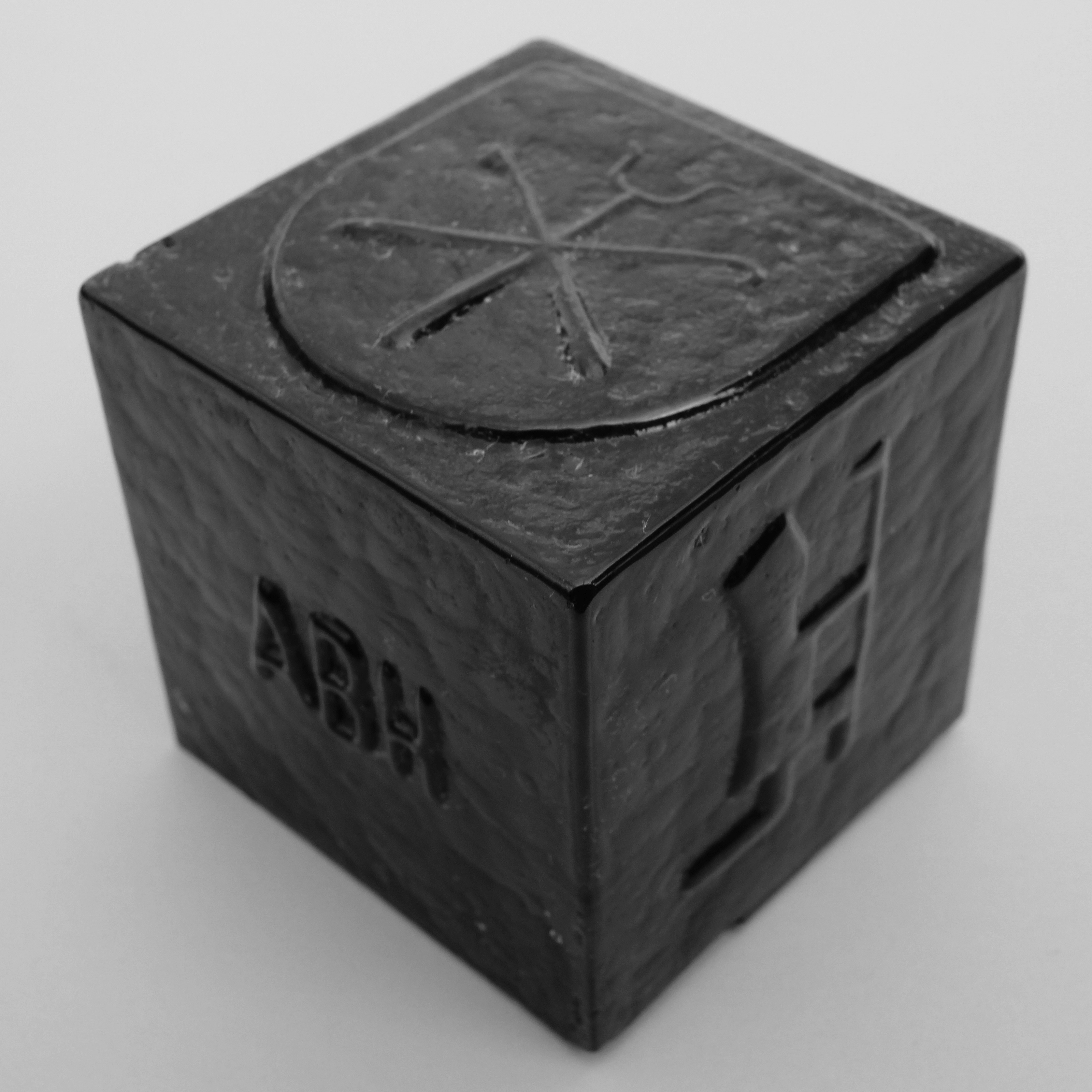 Mansfeld copper slag stone as a souvenir of the smeltery "August-Bebel-Hütte" at Helbra. Edge length 5 cm.